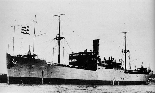 Nojima, collier of the Imperial Japanese Navy.